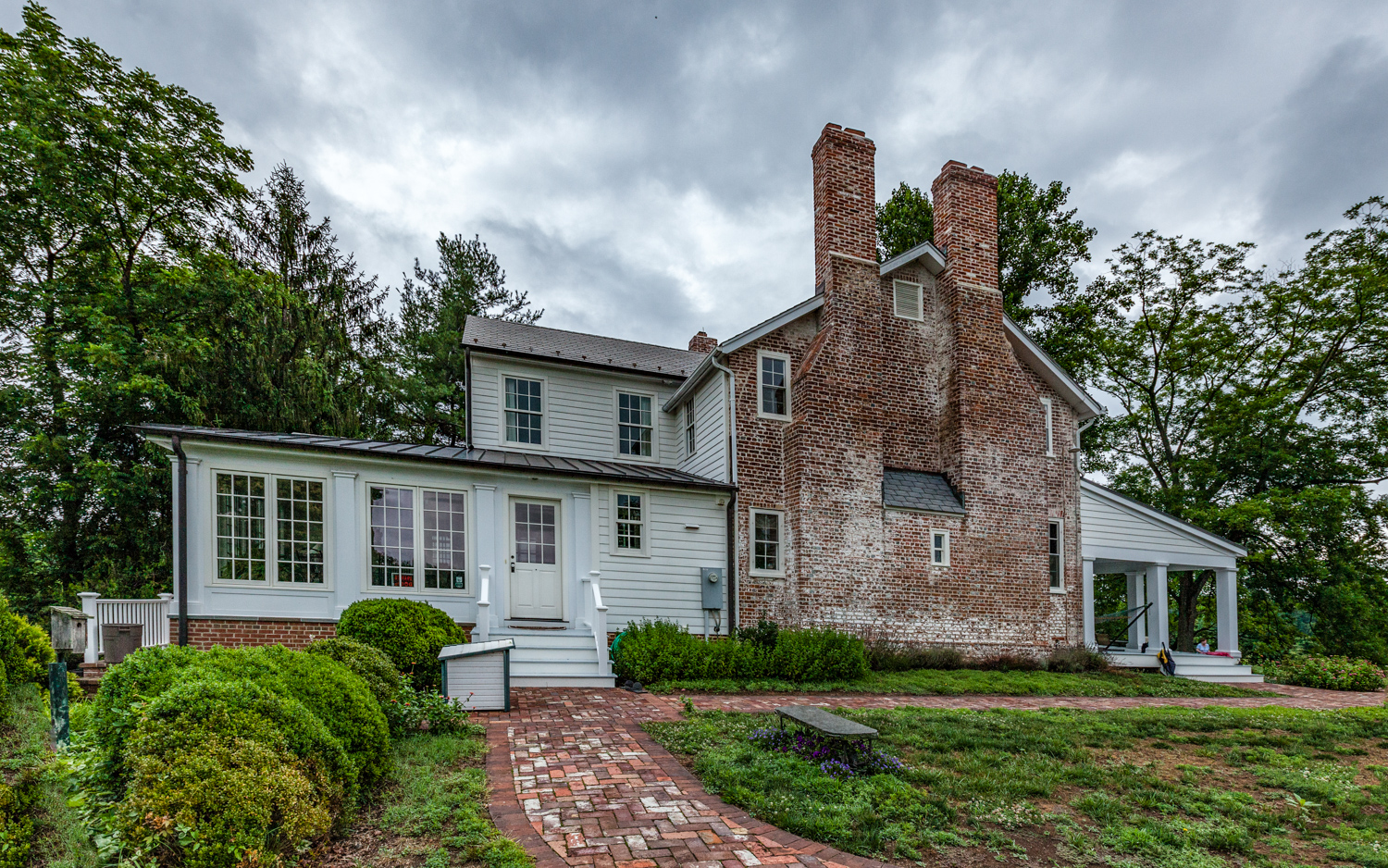 Mary's Mount, Harwood, Anne Arundel County, Maryland (Pat. 1662 Built 1771)